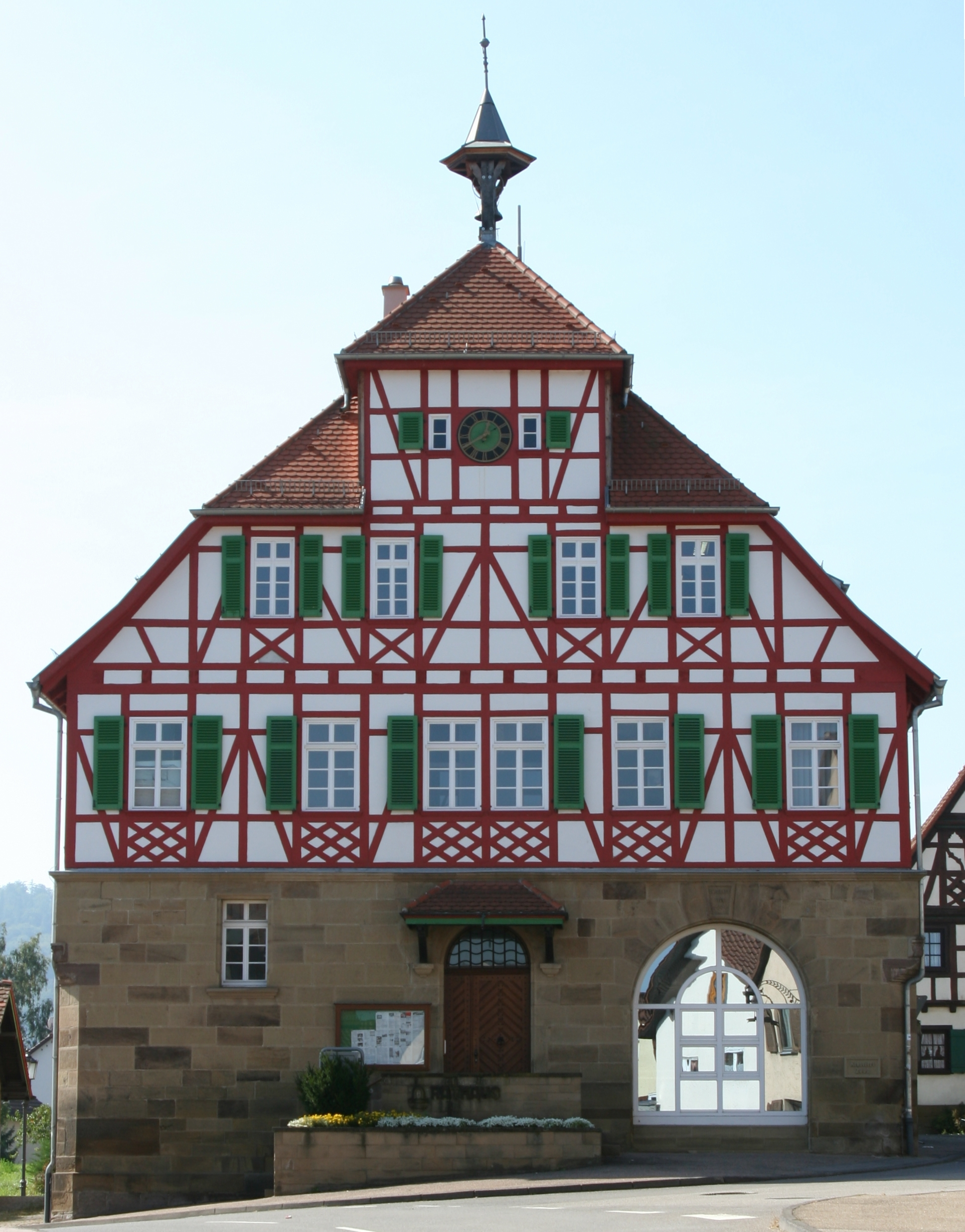 The town hall of Lehrensteinsfeld